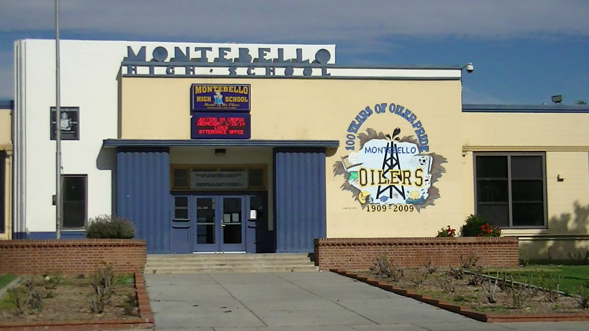 Front of Montebello HIgh School, Montebello, California